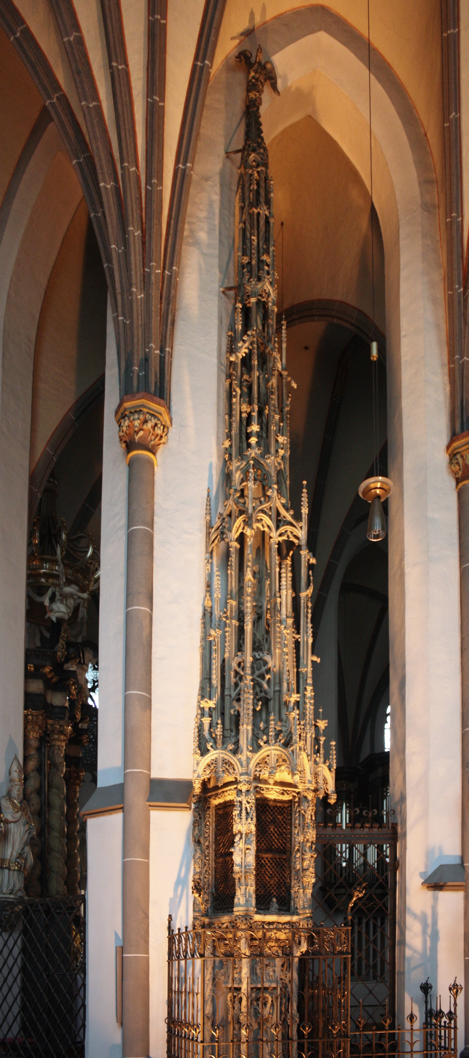 Düsseldorf, Germany. Catholic church St. Lambertus: tabernacle, late 15th century.